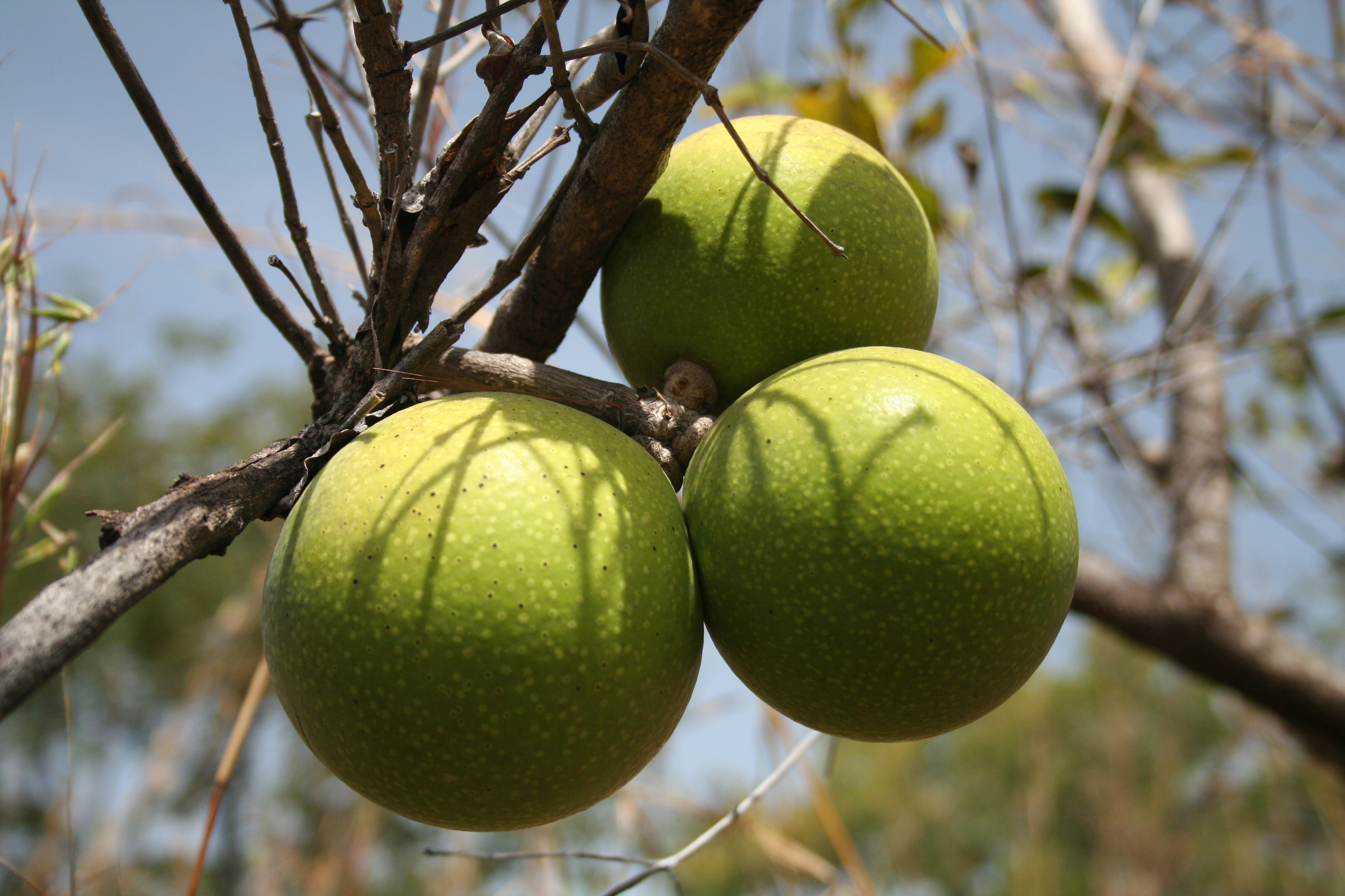 Strychnos spinosa, Chaine d'Atacora near Kondio, S Burkina Faso